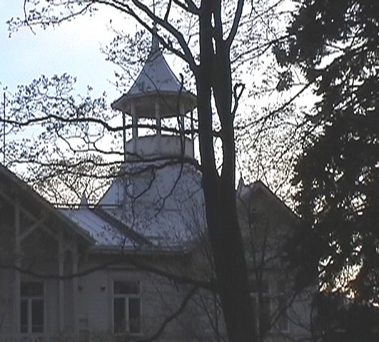 The tower of Villa Kivi, Helsinki, Finland